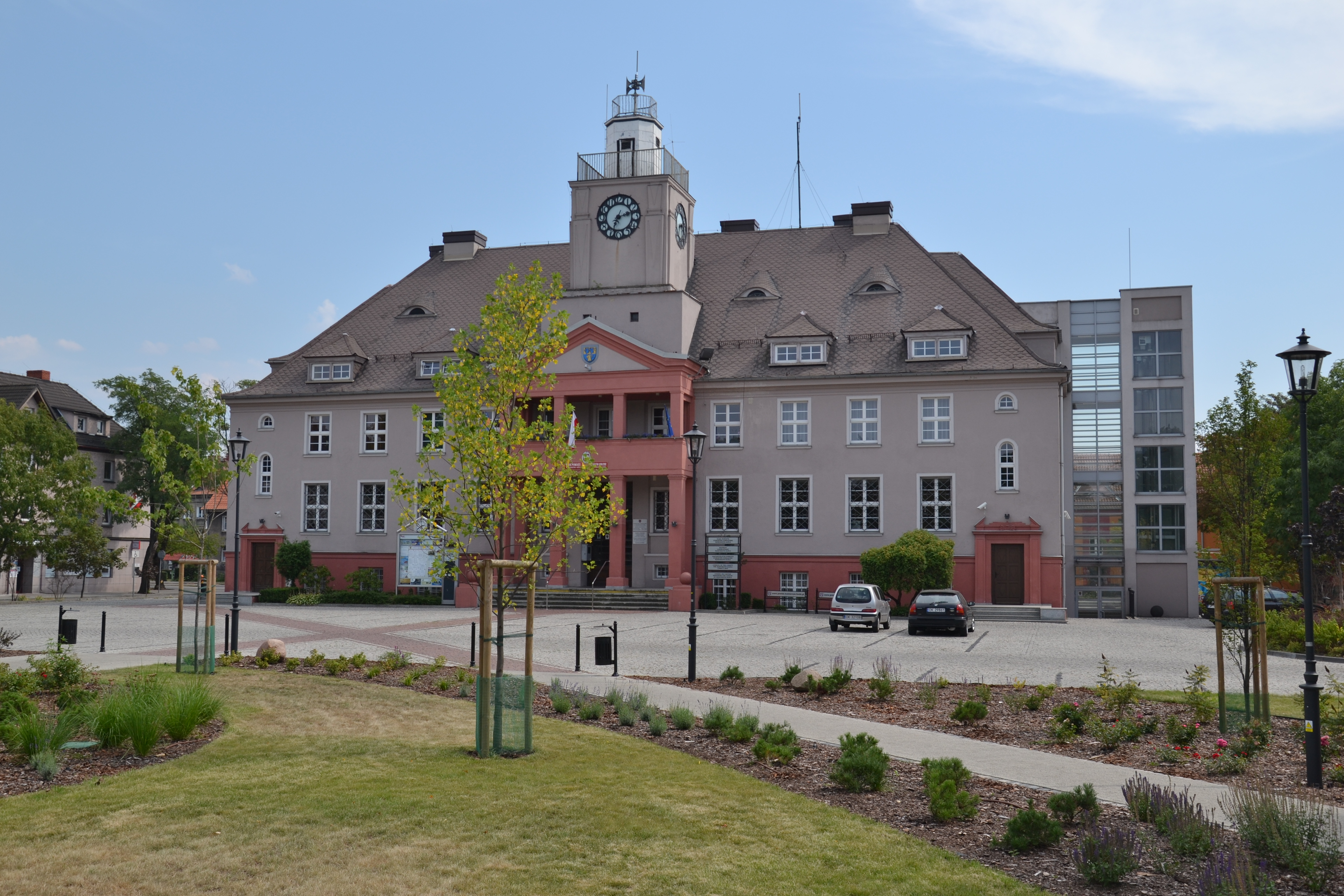 This photo was taken during Railway Wikiexpedition 2015 set up by Wikimedia Polska Association in cooperation with Fundacja Grupy PKP.You can see all photographs in category Wikiekspedycja kolejowa 2015.